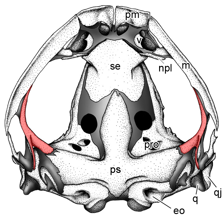 Skull of a male individual of the Andean toad species Osornophryne simpsoni PÁEZ-MOSCOSO et al. 2011 in palatal view. Cartilage is shown in grey. The pterygoid bone is highlighted in red. Abbreviations: eo = exoccipital, m = maxilla, npl = neopalatine, pm = premaxilla, pro = prootic, ps = parasphenoid, q = quadrate, qj = quadratojugal, se = sphenethmoid.